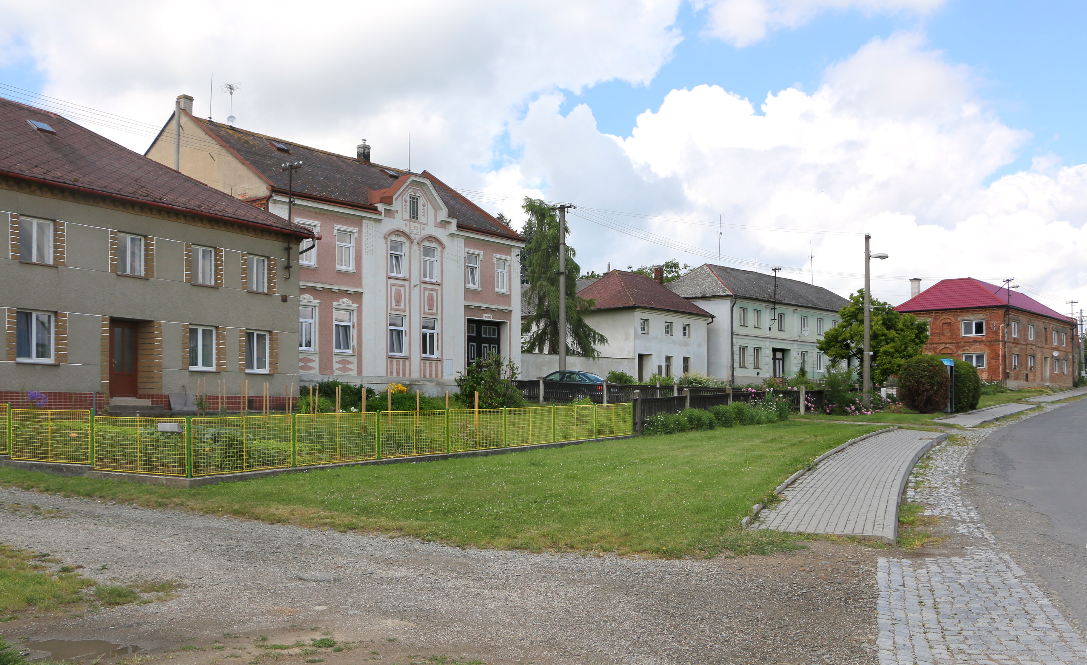 Common in Loučka village, Czech Republic.